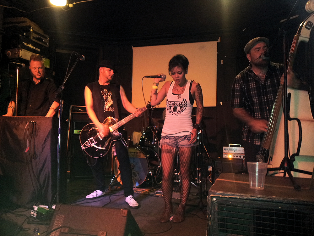 Current line up of The Creepshow, Canadian Psychobilly band, performing one of their first shows with vocalist Kenda "Twisted" Legaspi, live at Star & Garter, Manchester, United Kingdom on August 7th 2012.